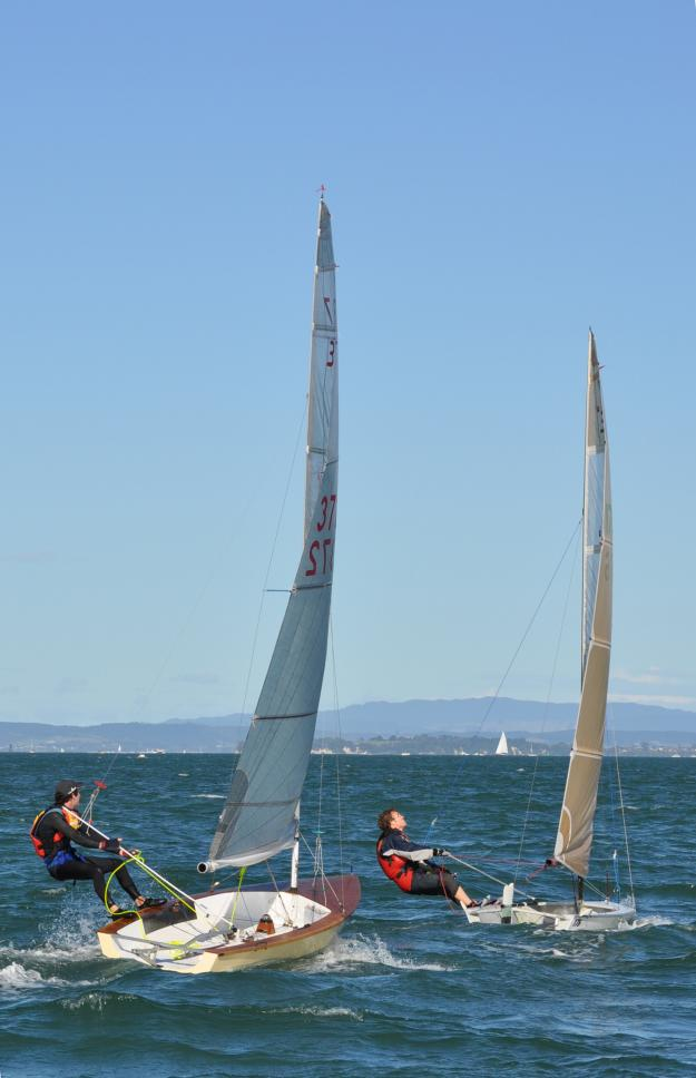 Farr 3.7 Racing Takapuna: Mark OBrien #176 ahead Derek Scott #372